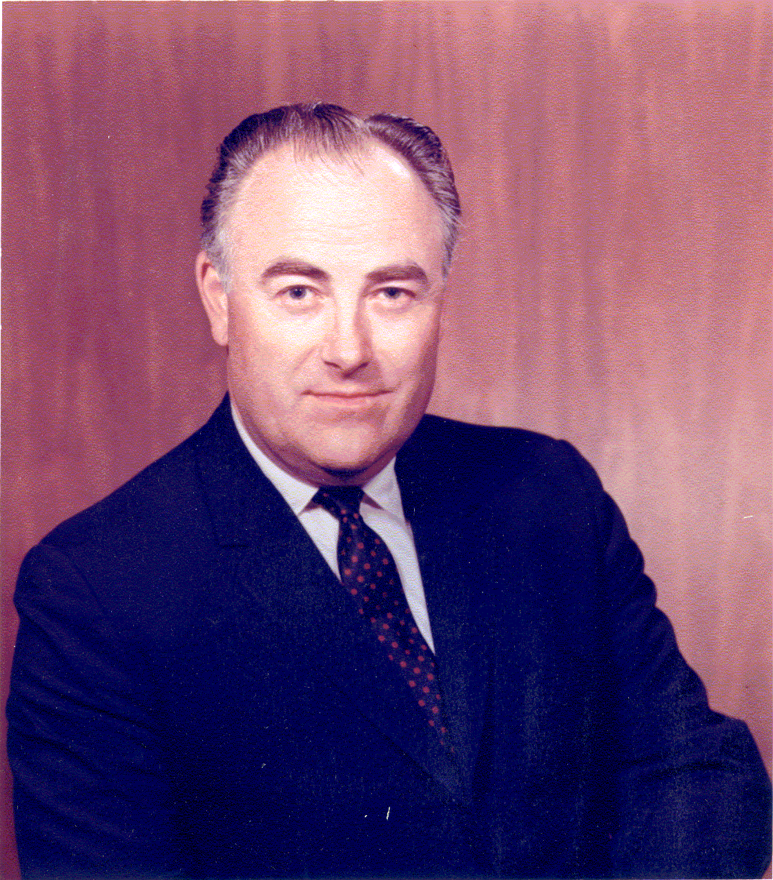 Donald Holst Clausen, Member U.S. House of Representatives, January 22, 1963-January 3, 1983 California's district encompassing Humboldt and Del Norte Counties